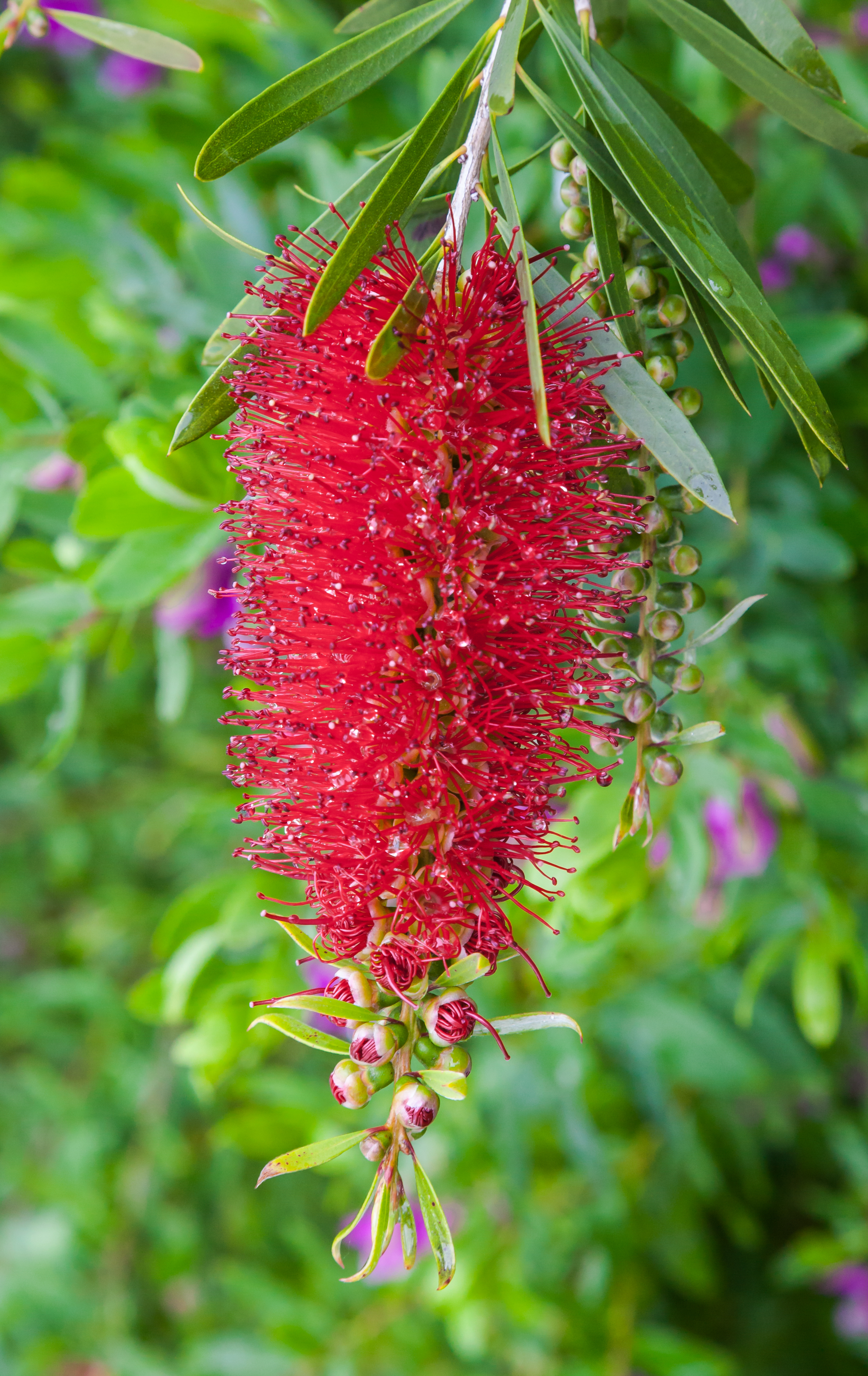 Crimson Bottlebrush (Callistemon citrinus), Setubal, Portugal